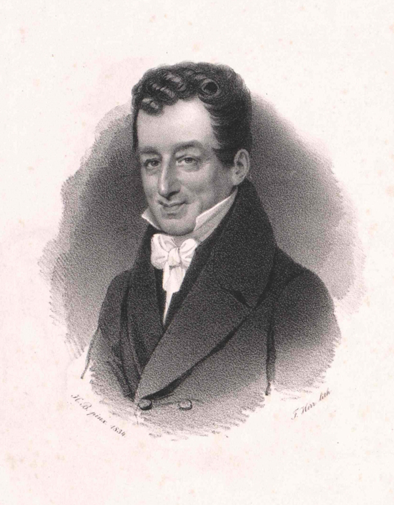 Joseph Hönig Ritter von Henikstein (1768–1838). Lithograph by Faustin Herr. Inscriptions: H. B. pinx 1834 and F. Herr lith